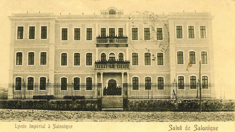 Lycée impérial à Salonique